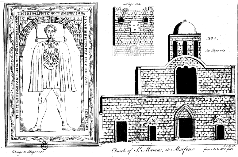 Church St' Mamas Morfou